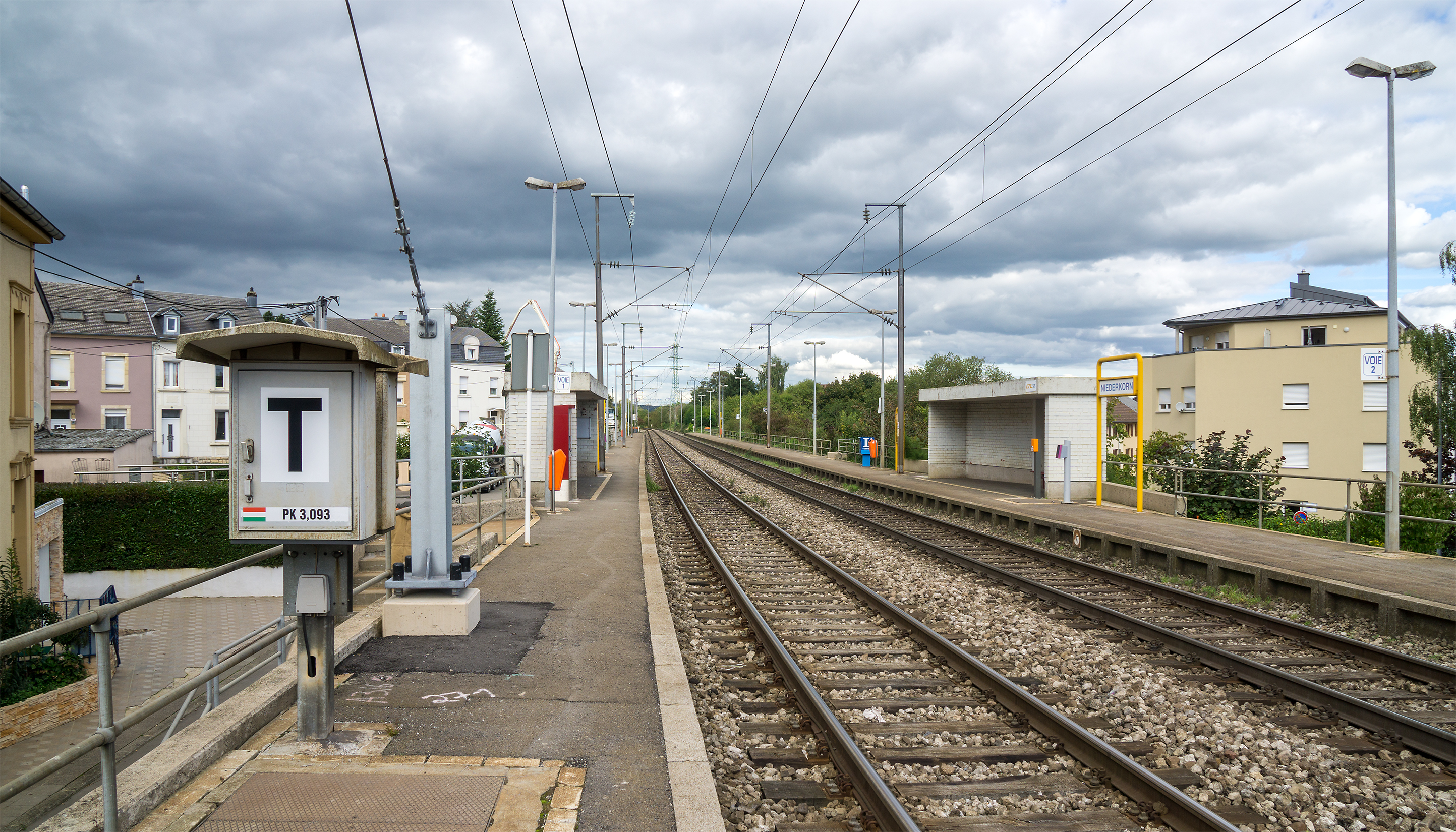 Train station in Niedercorn